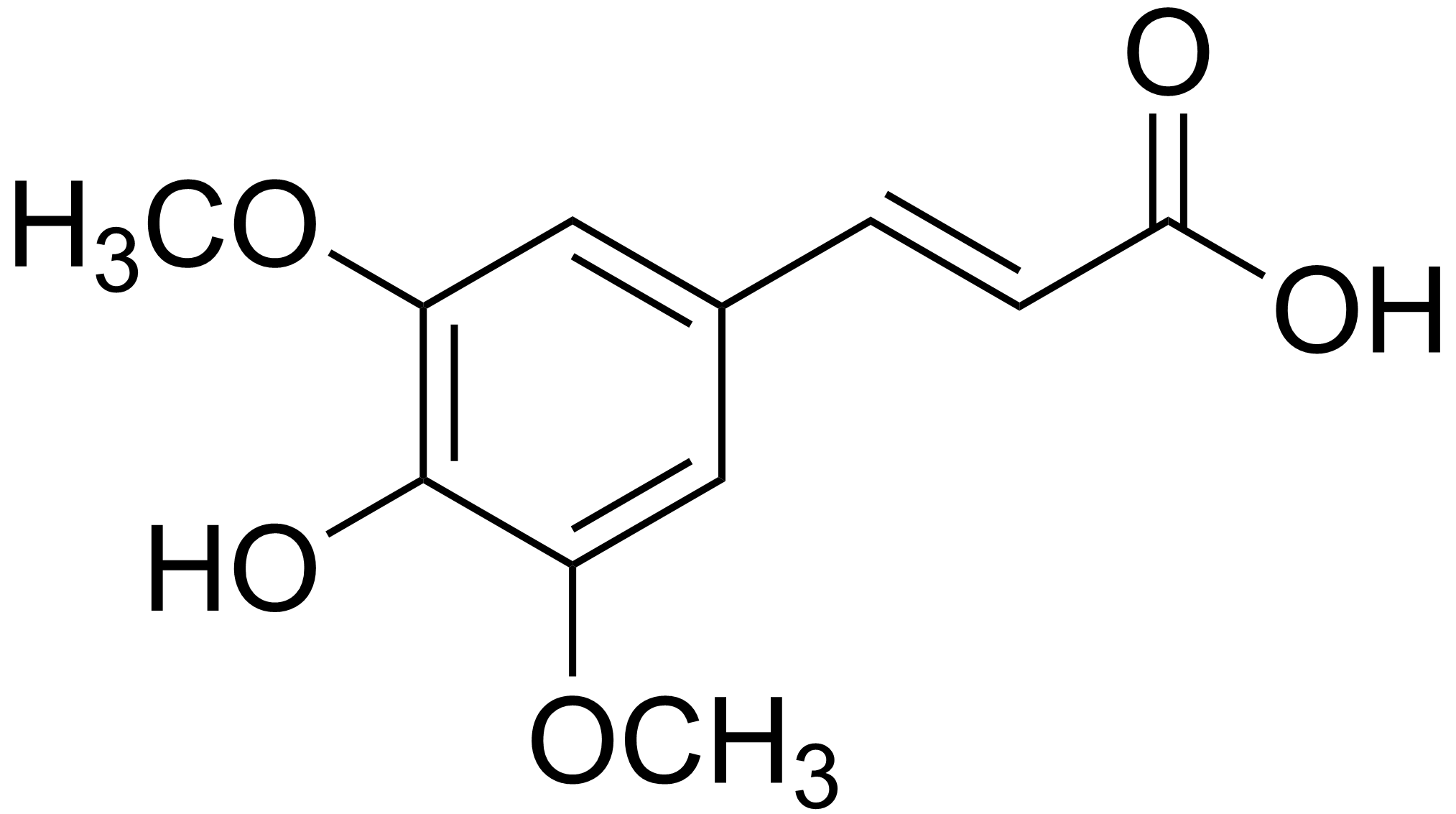 chemical structure of sinapic acid